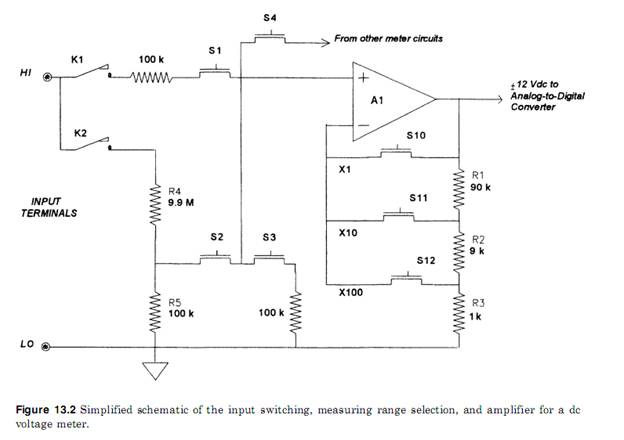 Simplified schematic of the input switching,measuring range selection,and amplifier for a dc voltage meter